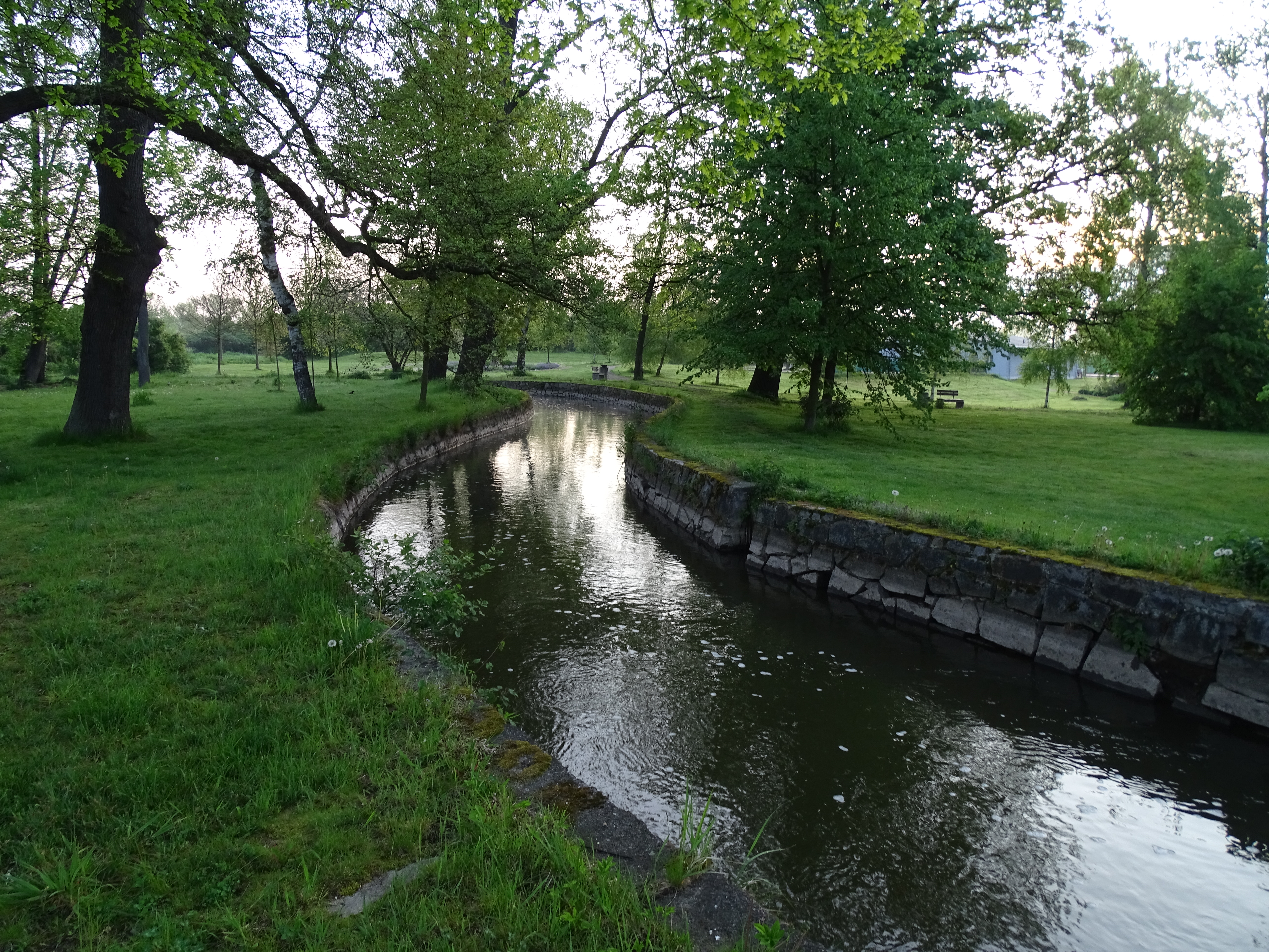 Třeboň I, II, Jindřichův Hradec District, South Bohemian Region, Czechia, Zlatá stoka.